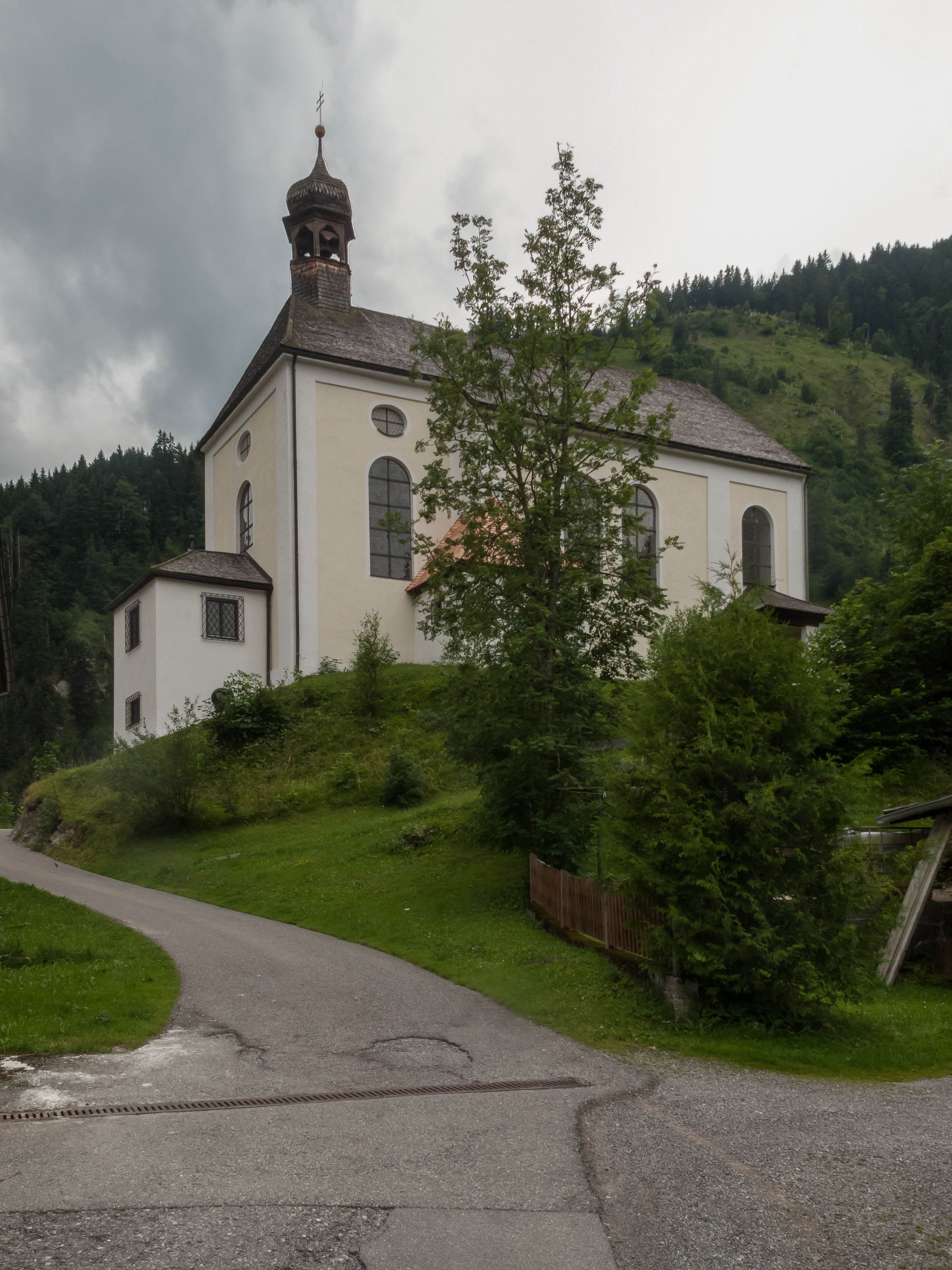 Bichlbach, church: Zunftkirche heilige Josef